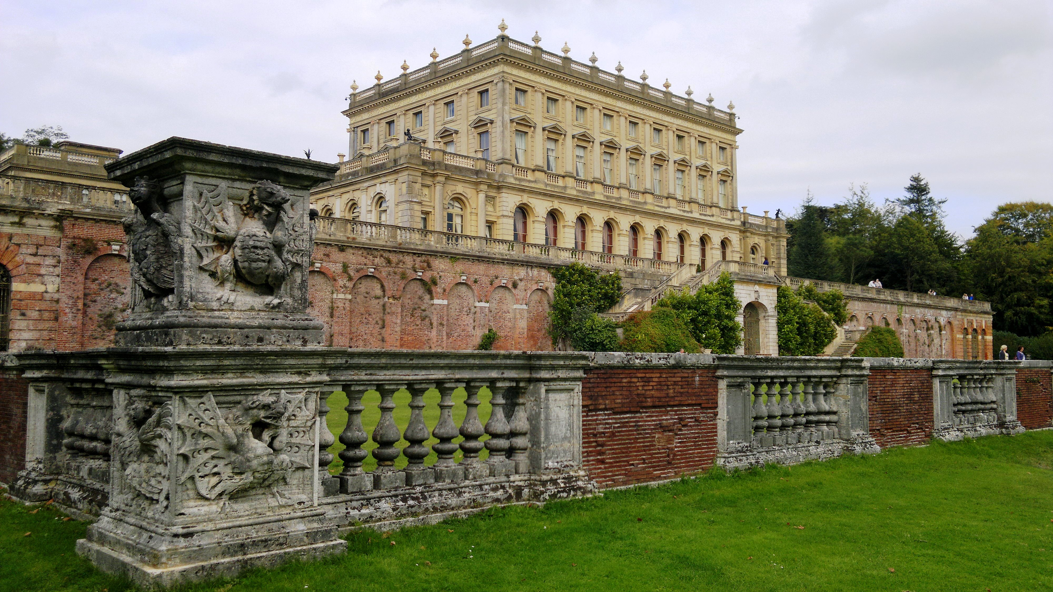 Cliveden, Taplow, Bucks, UK